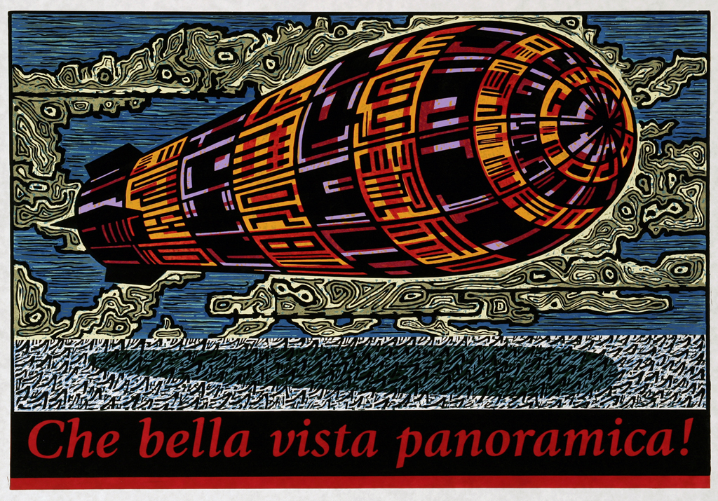 4-block 12-color woodblock print on kozo paper